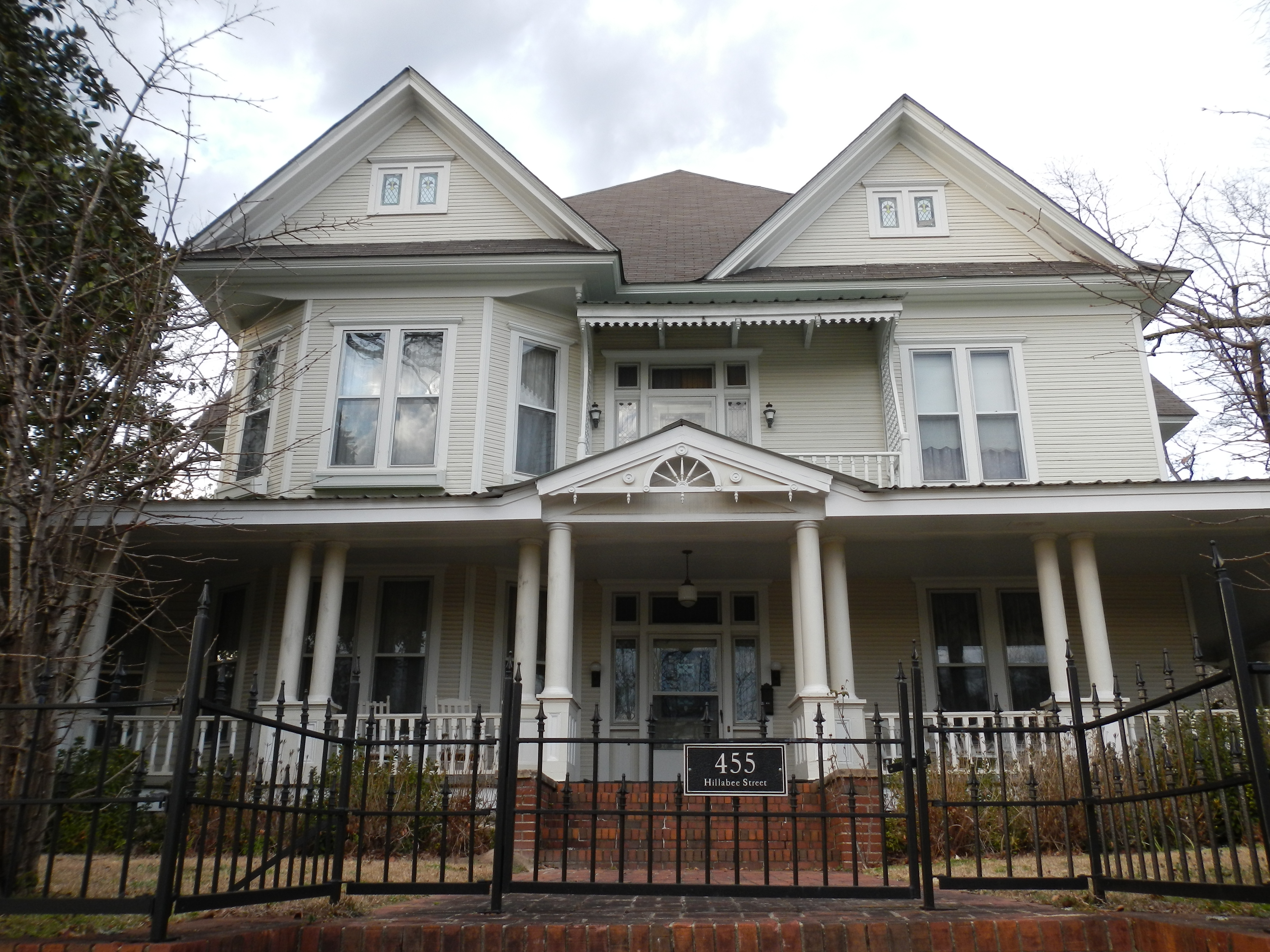 This is a photograph of the A.J. and Emma E. Thomas Coley House in Alexander City, Alabama.